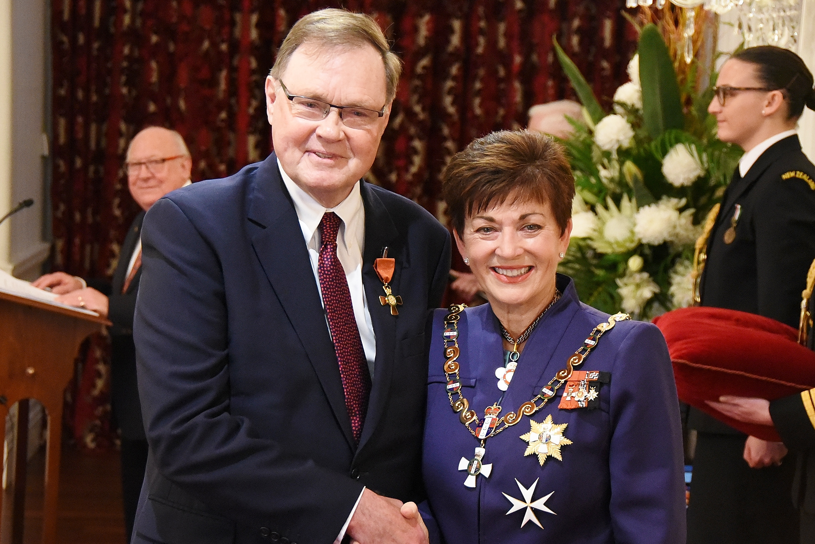 Professor Donald McRae, of Ottawa, after his investiture as ONZM, for services to the State and international law, by the New Zealand Governor-General, Dame Patsy Reddy, on 23 May 2017